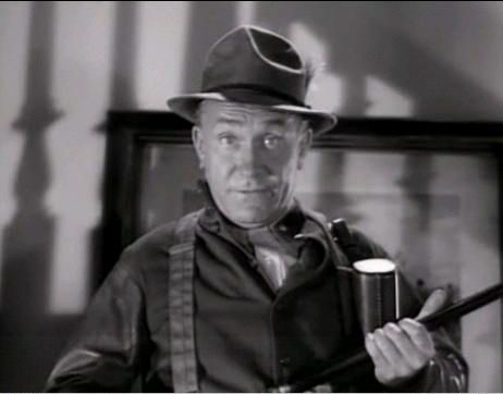 Screenshot of Bill Demarest from the film The Palm Beach Story